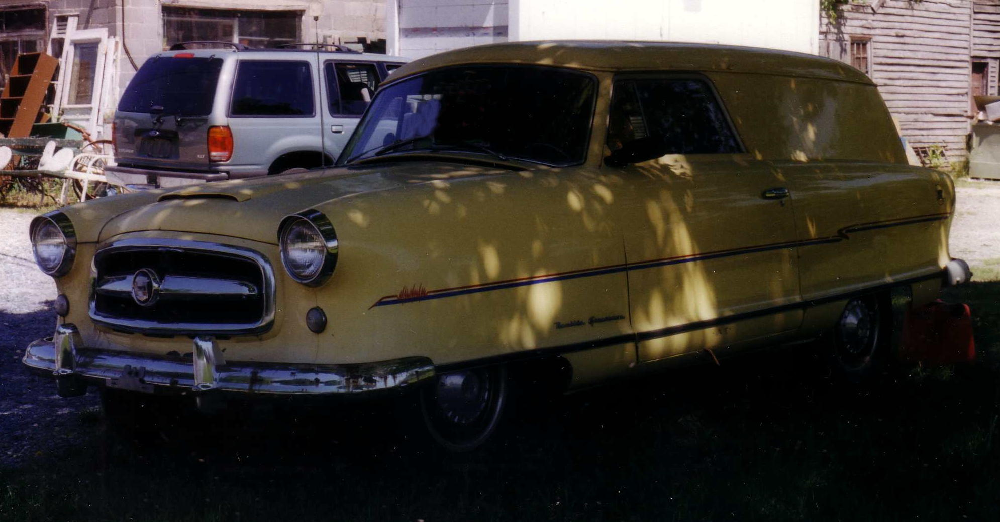 1953 Nash Rambler Deliveryman. However, this model was no longer listed in the regular 1953 catalog, and records indicate only nine were built ( This possibly could be a converted Greenbrier 2-door wagon wagon of which only 3,536 were made? ( The stripes and trim on the body side are not factory. Photograph taken where this car was for sale in Maryland.